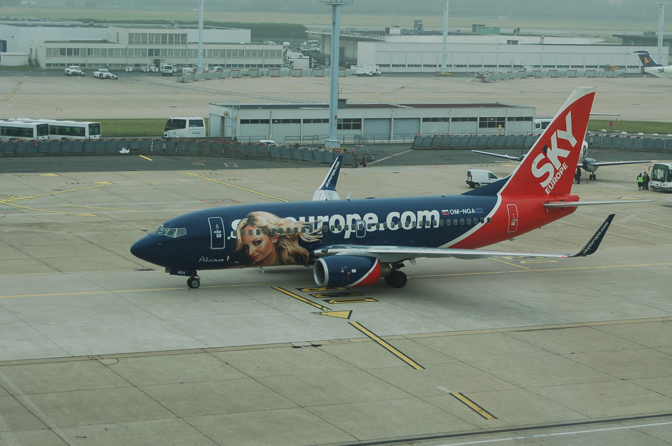 Boeing 737/7 of SkyEurope Airlines at Paris Orly (ORY,) France,21/05/07.